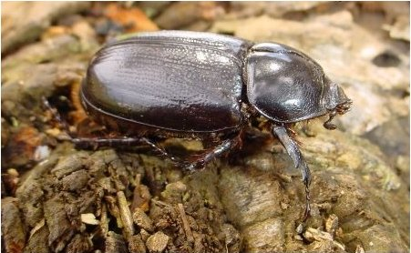 Bourbon's Rhinoceros Beetle, endemic from Reunion Island, Maïdo (St Paul)